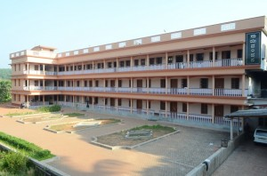 This is a high school run by Sri Sathya Sai Loka Seva trust